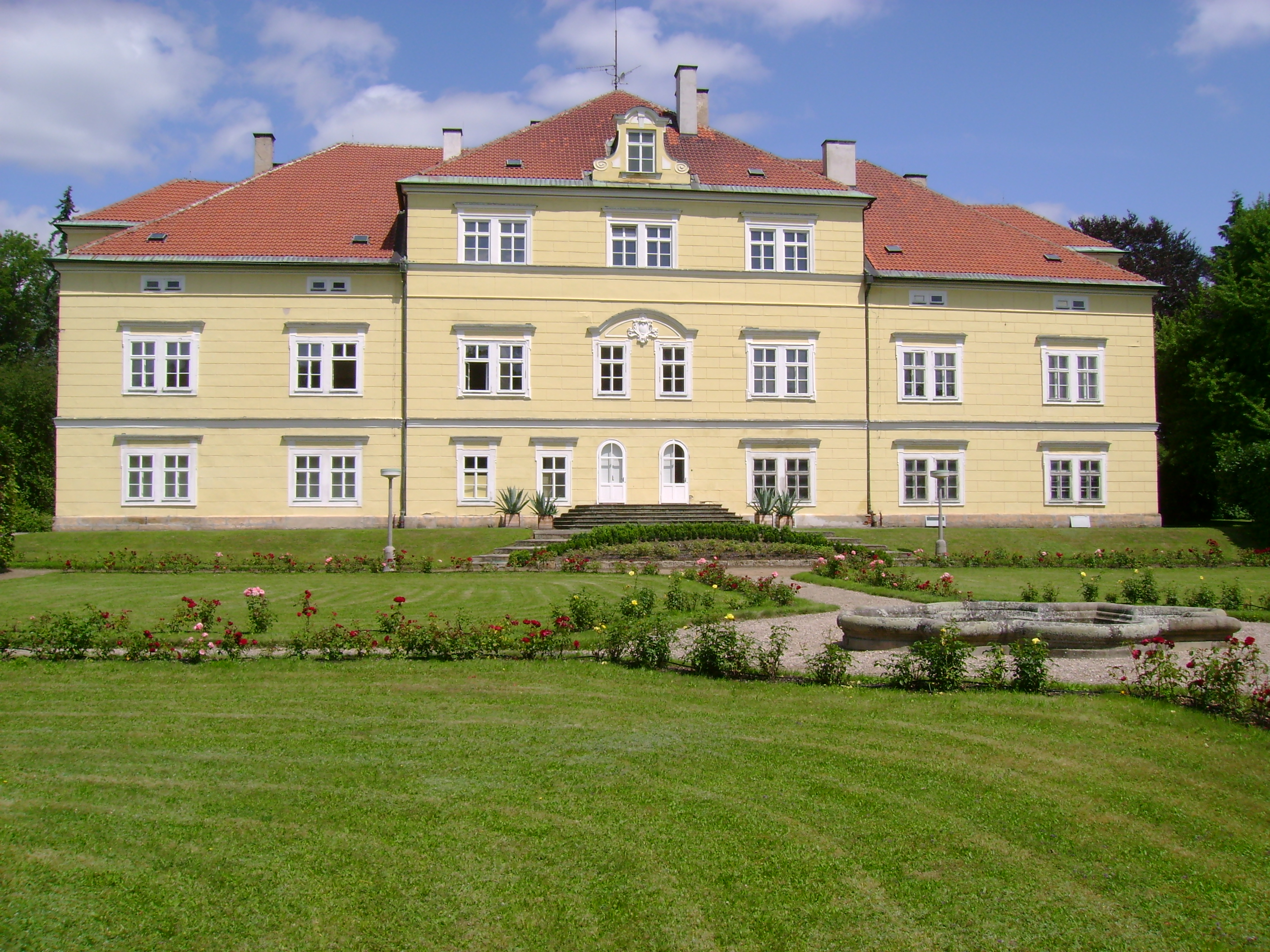 Castle in Miletín, Jičín District, the Czech Republic.